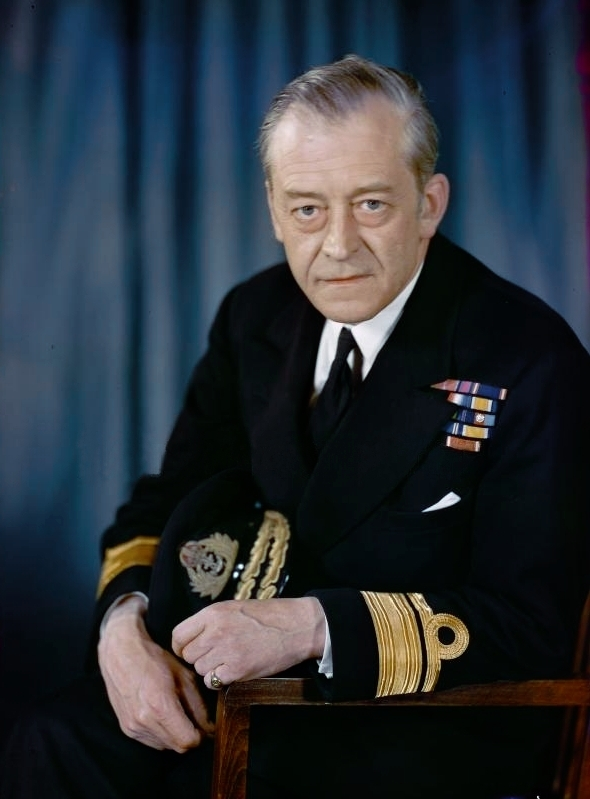 The Royal Navy during the Second World War- Personalities Half length portrait of Rear Admiral George Creasy an his appointment as Admiral (Submarines).